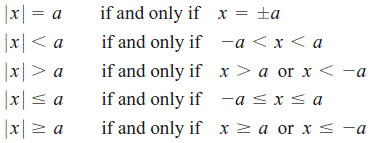 Absolute value